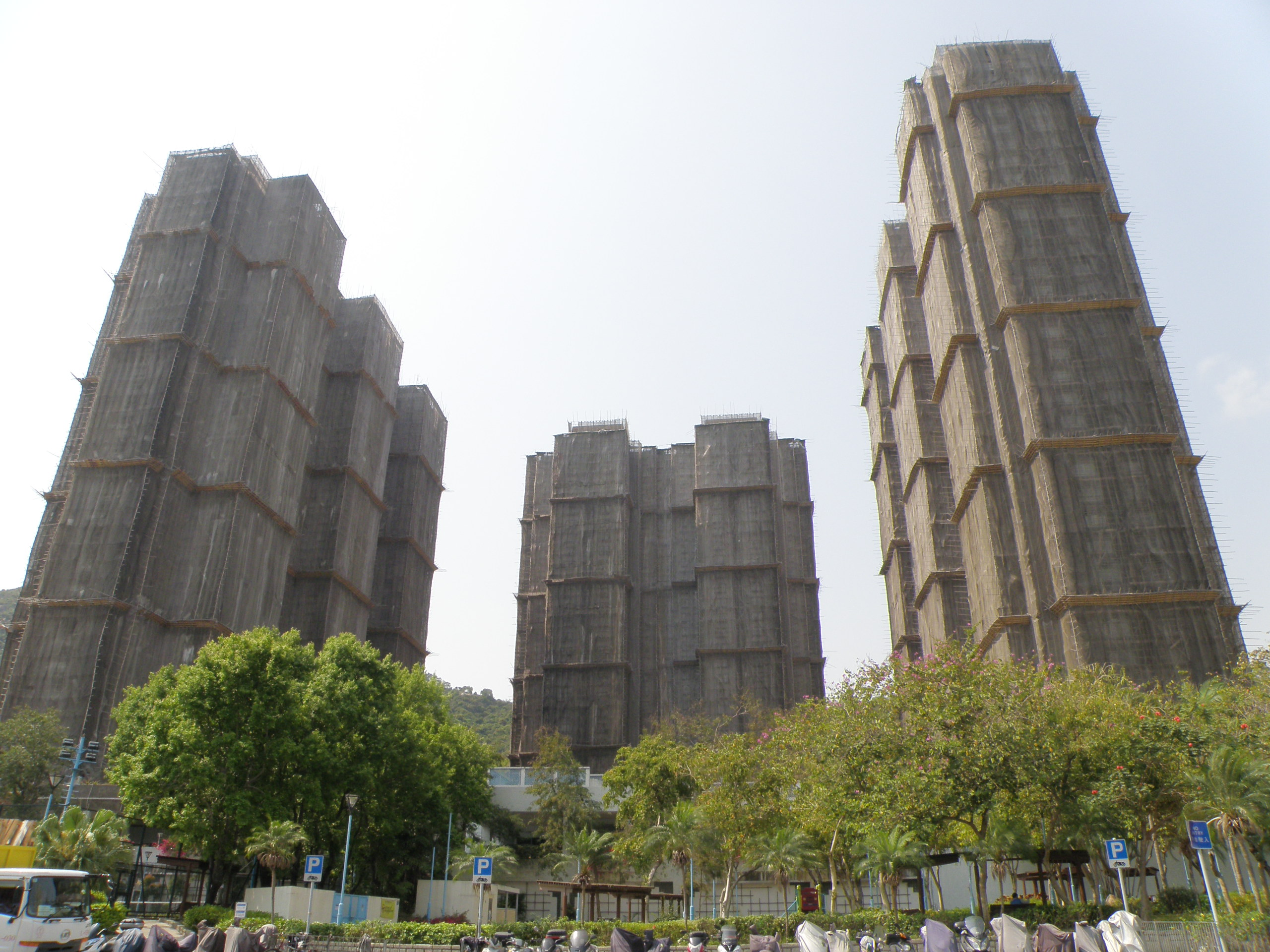 Mayfair Gardens in Tsing Yi, Hong Kong.